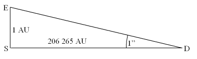 Diagram of parsec.